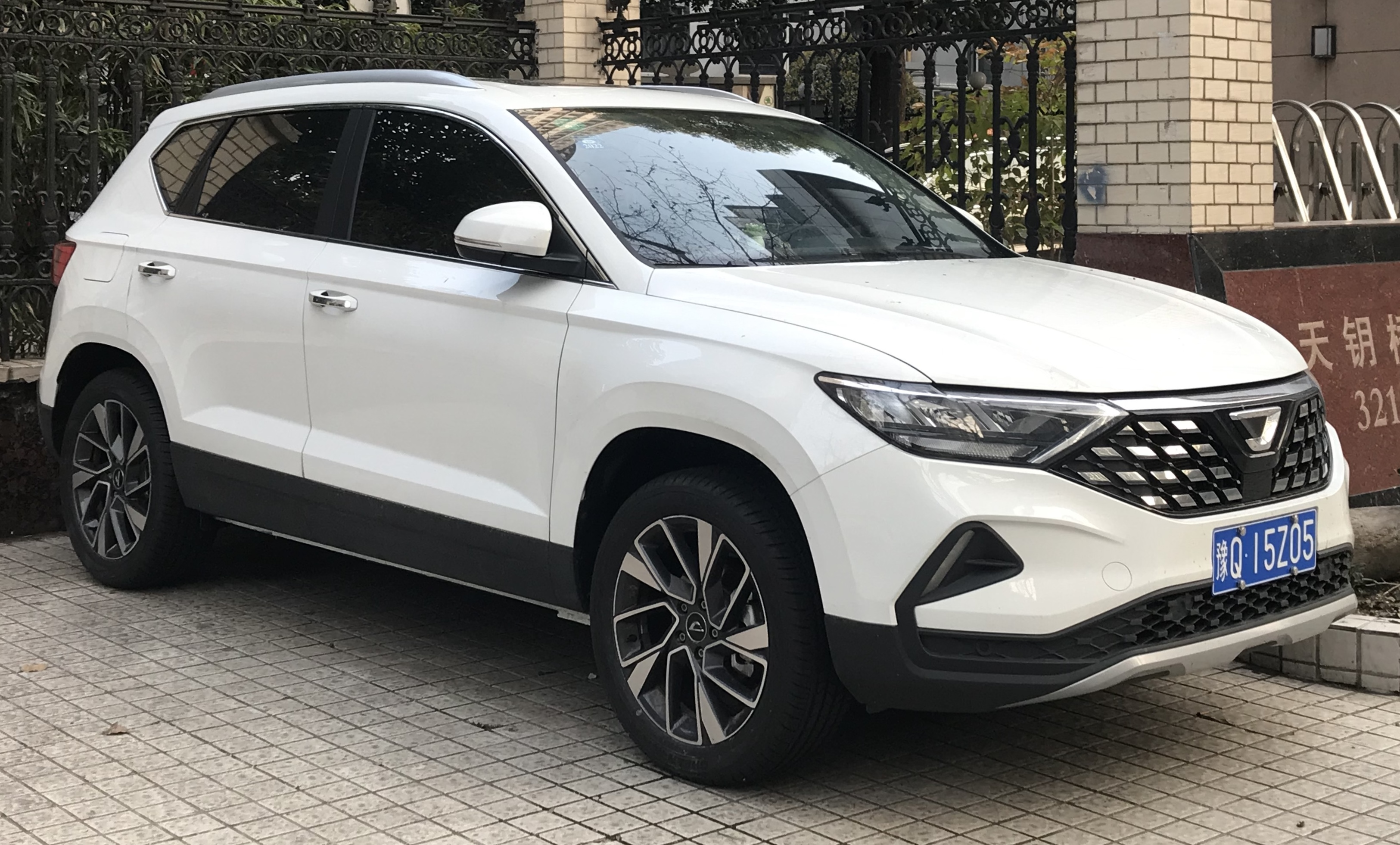 Jetta VS5